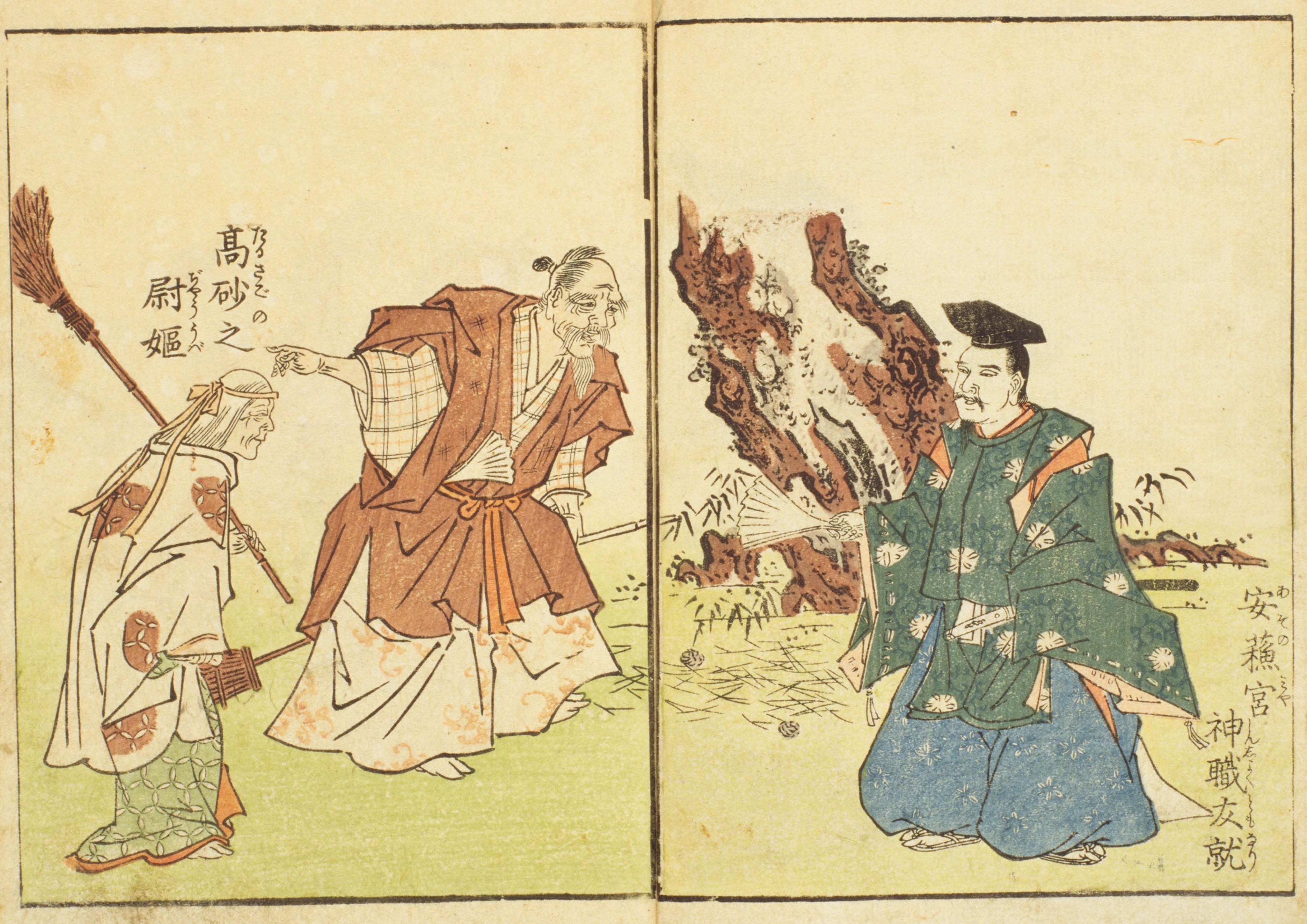 Woodblock print illustration titled "Takasago", page. "Ehon Takara no Nanakusa" by author Santo Kyoden (13 September 1761 – 27 October 1816) 山東 京伝. Published in 1804 by publishing house owner Tsutaya Juzaburo (13 February 1750 – 31 May 1797) 蔦屋 重三郎. Sourced from National Diet Library; URL, at spread WB36-2#00004.js2 (slide#4)